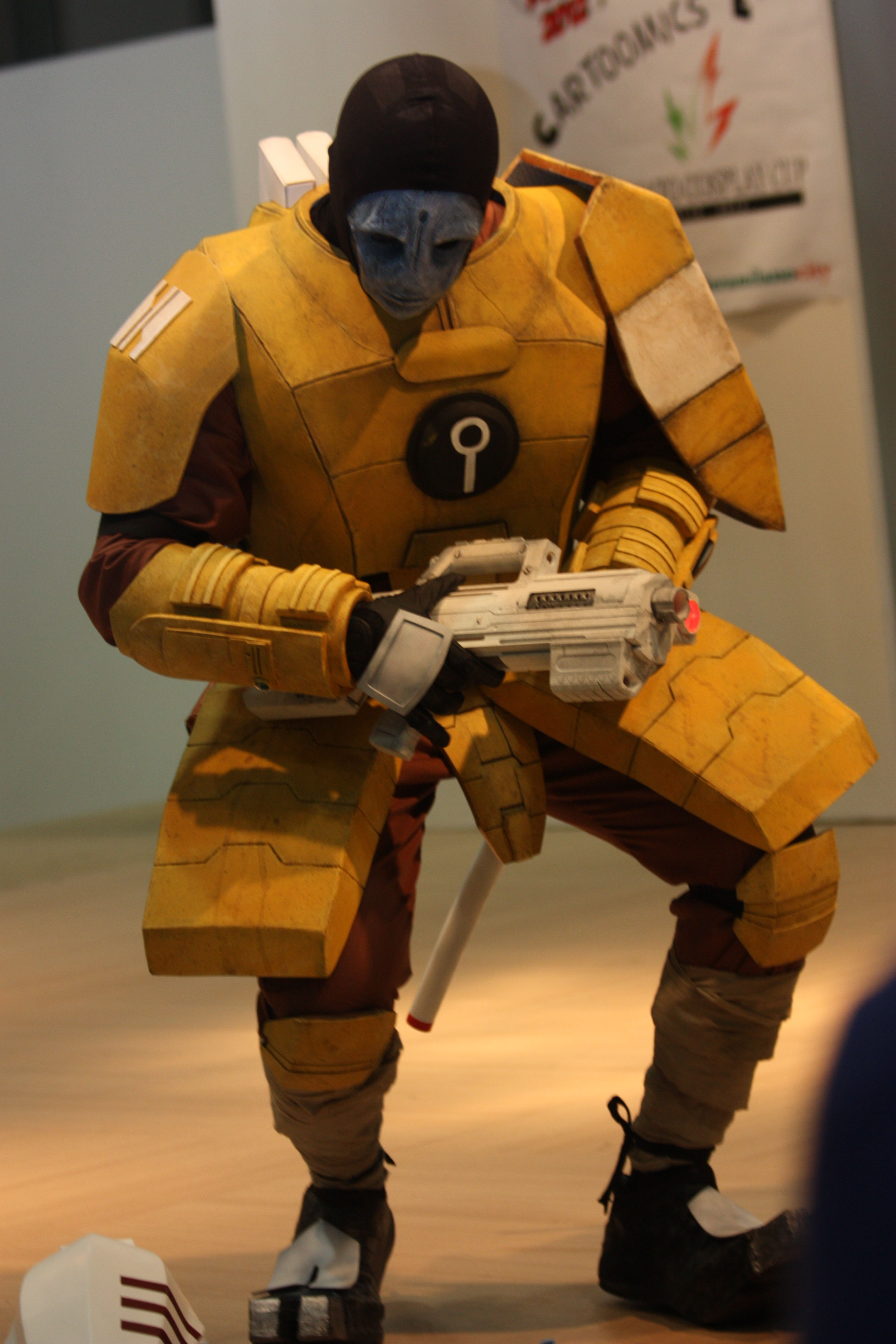 Tau Fire Warrior cosplay